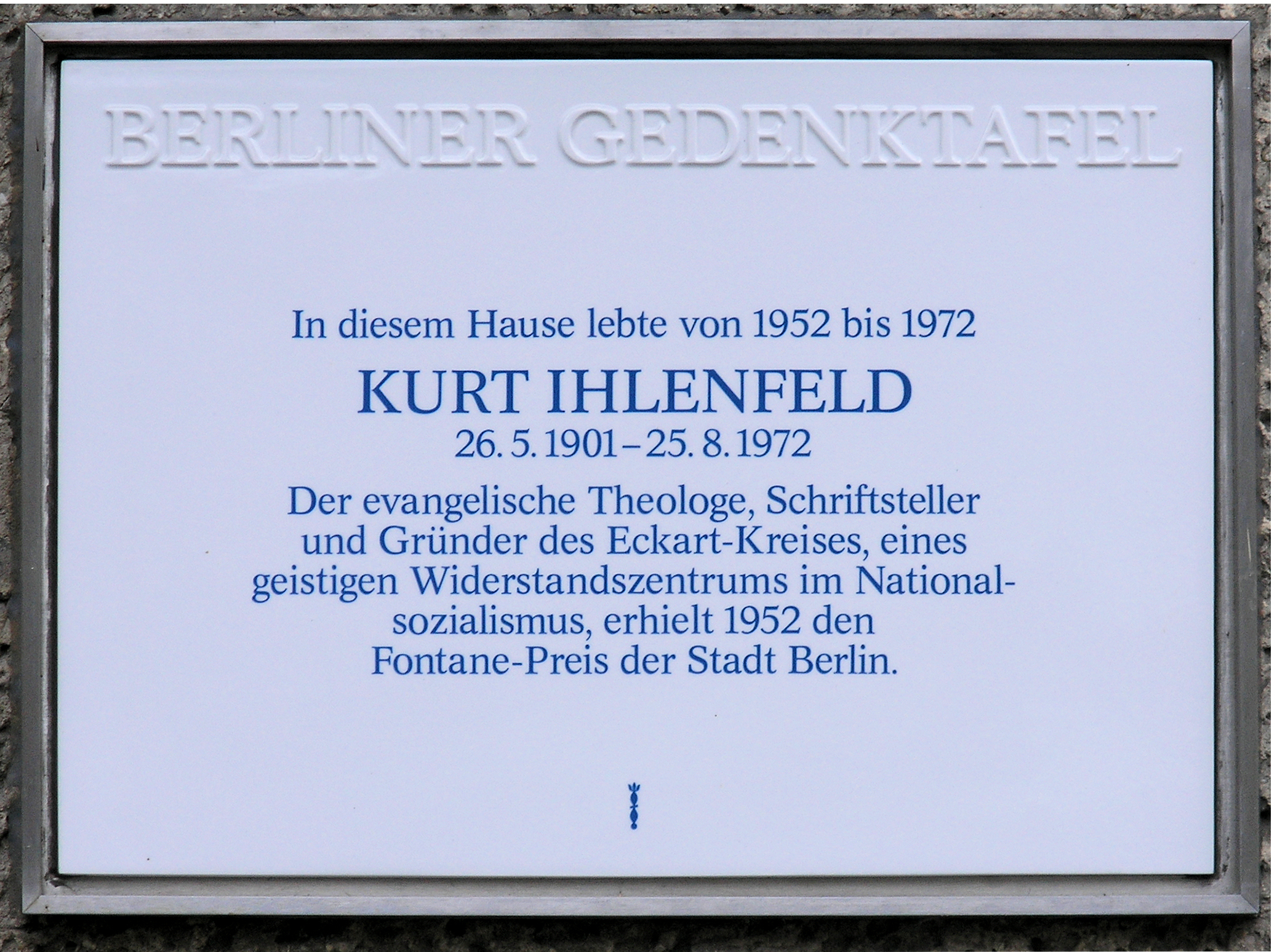 Berlin memorial plaque, Kurt Ihlenfeld, Heimat 85, Berlin-Zehlendorf, Germany